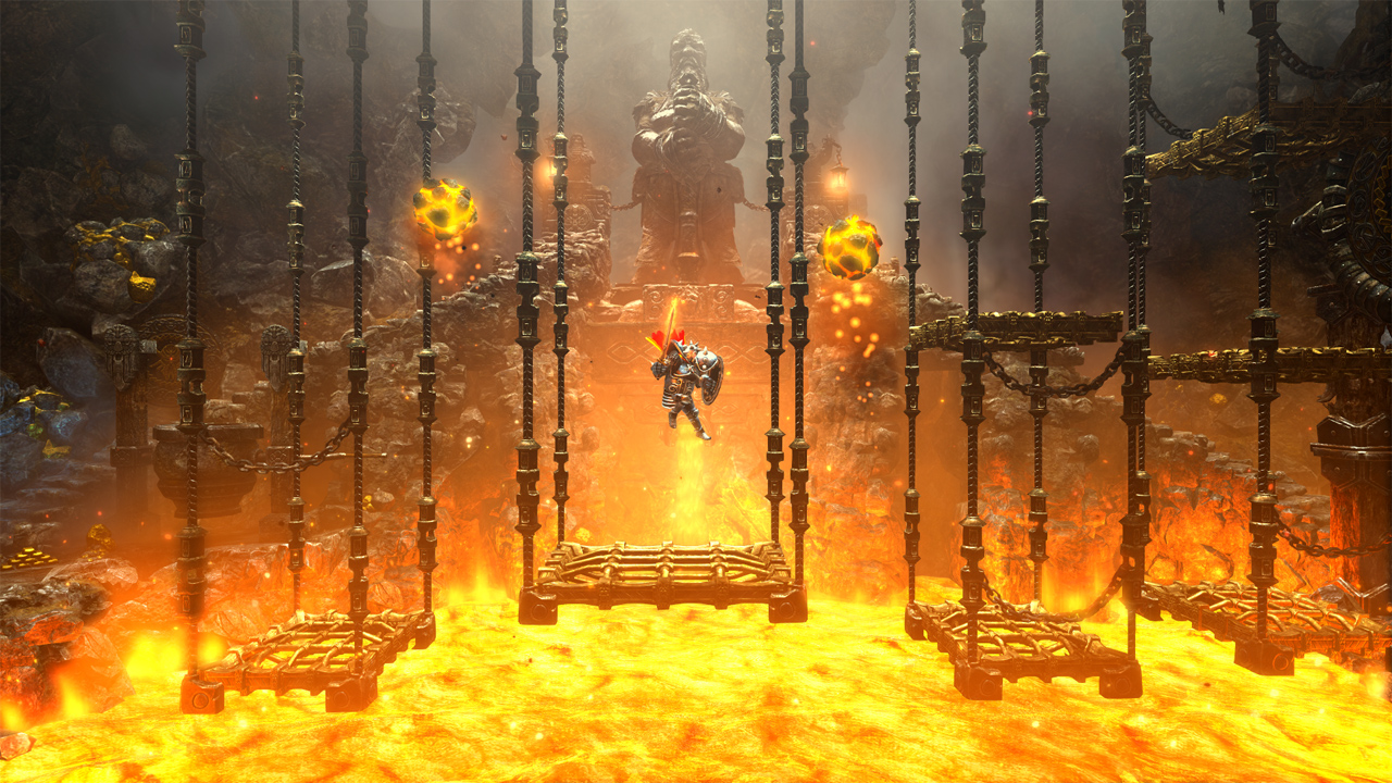 Trine 2 screenshot. Released in 2011, the game was developed by Frozenbyte. Pontius navigates platforms dangling over a pit of lava in this scene from the Dwarven Caverns chapter, exclusive to the Wii U Director's Cut version released in 2012.